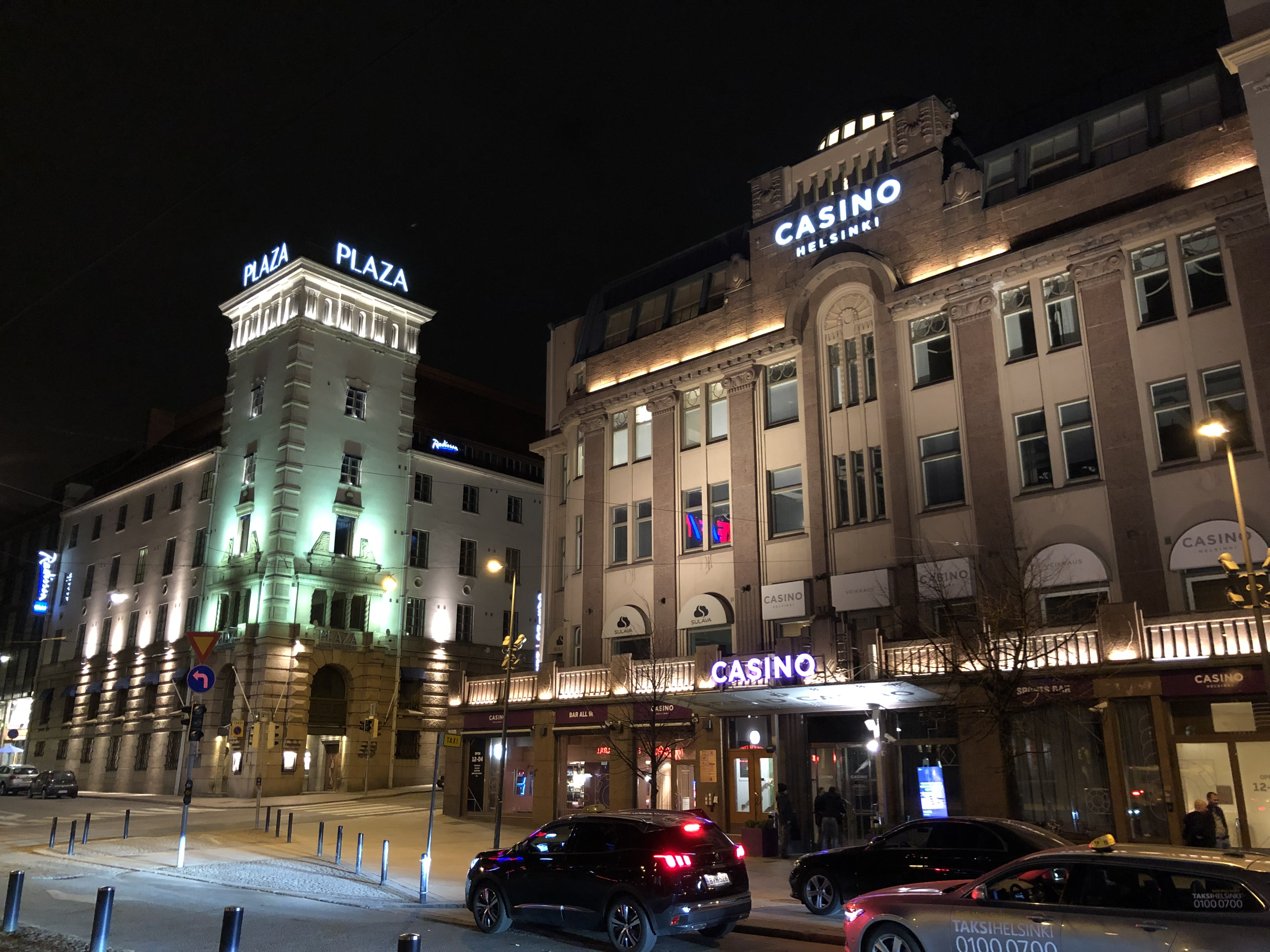 Casino Helsinki and Plaza Hotel in Mikonkatu 19.